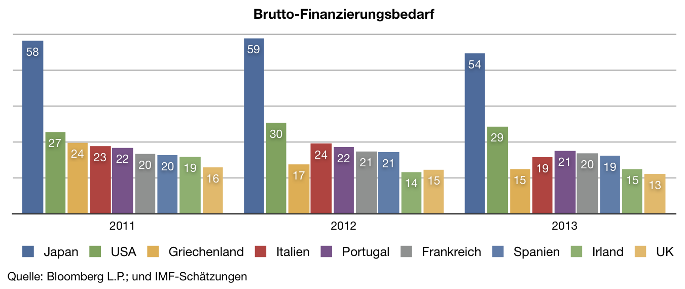 Gross financing needs in % of GDP Sources: Bloomberg L.P.; and IMF staff estimates and projections. See: September 2011 Fiscal Monitor: Direct link to Excel document: Notes: Greece's maturing debt assumes 90 percent participation in the debt exchange. Ireland’s maturing debt includes €3.08 billion each year related to the redemption of promissory notes issued in 2010 to support the financial sector.